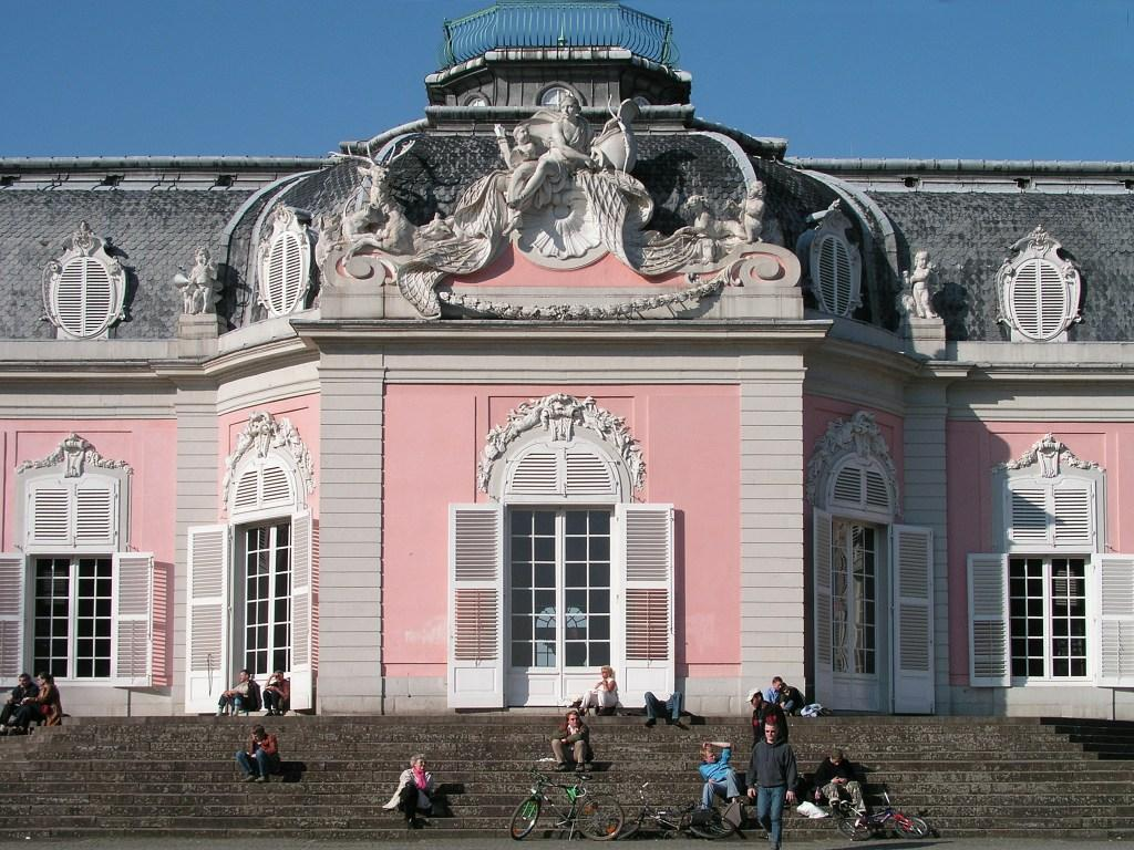 Wuppertal, North-Rhine/Westphalia (Germany): Düsseldorf, castle Benrath, photo 2003